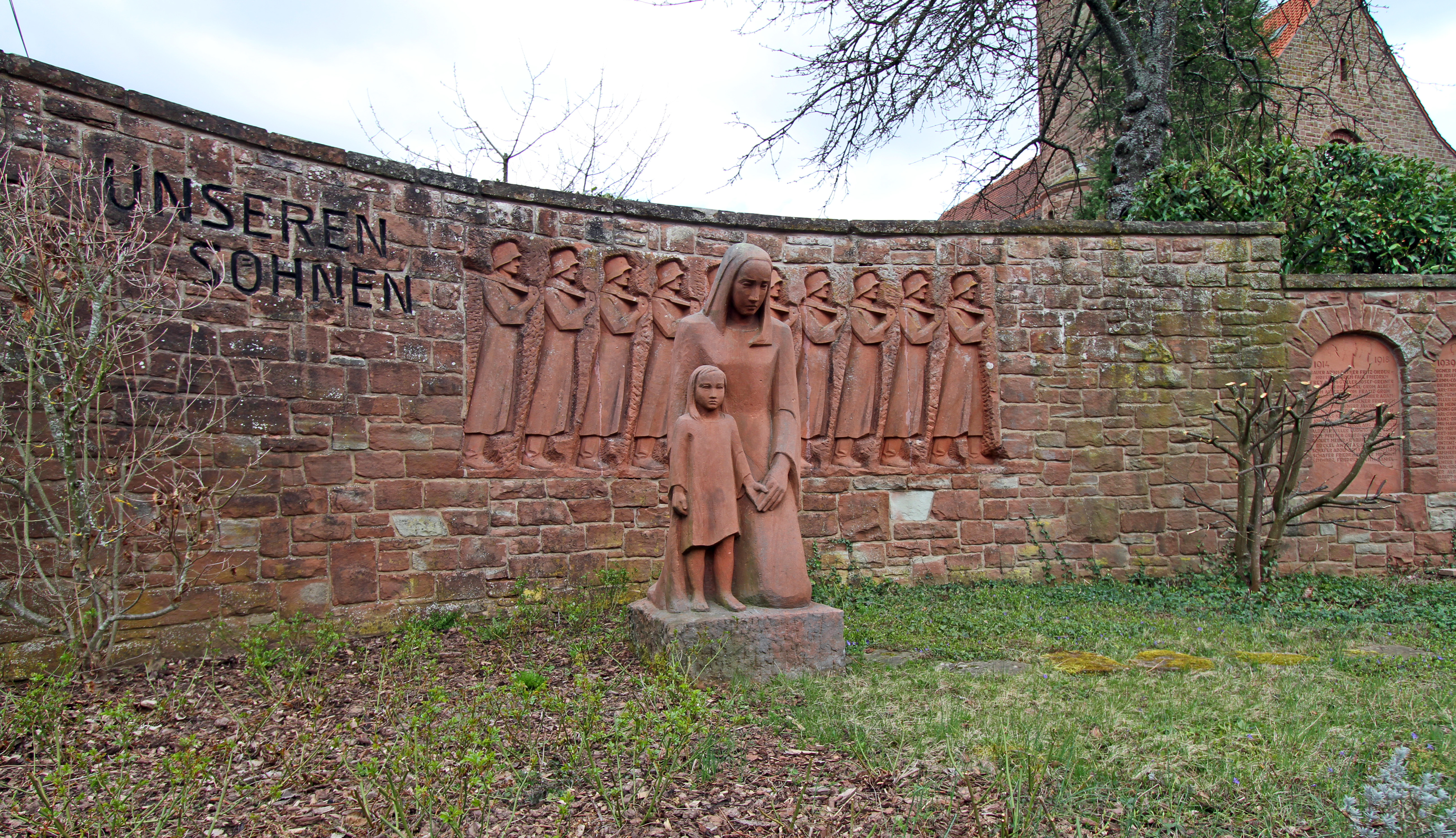 War memorial at the church of Saint Sebastian in Vinningen.